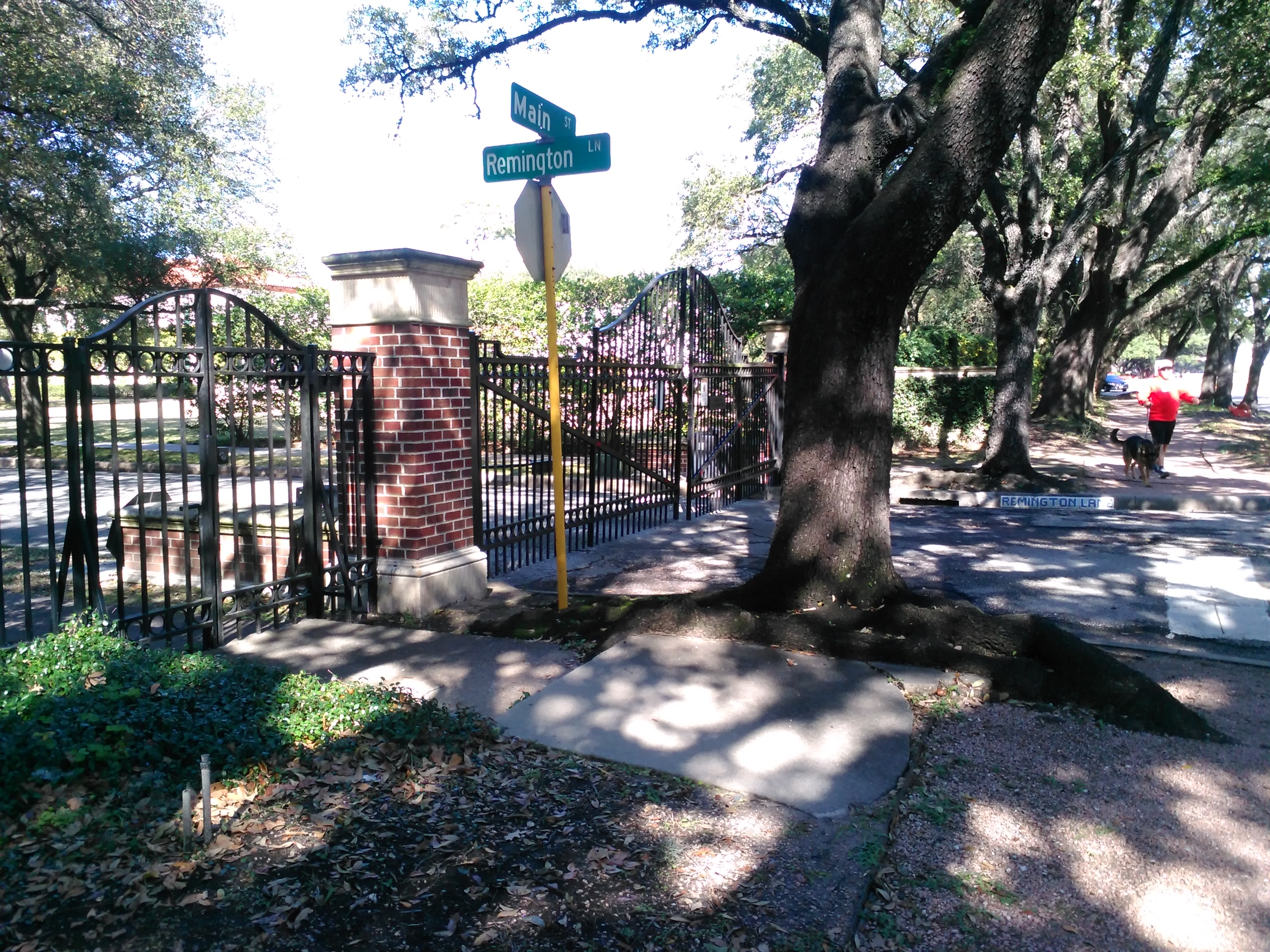 Main at Remington entrance, Shadyside